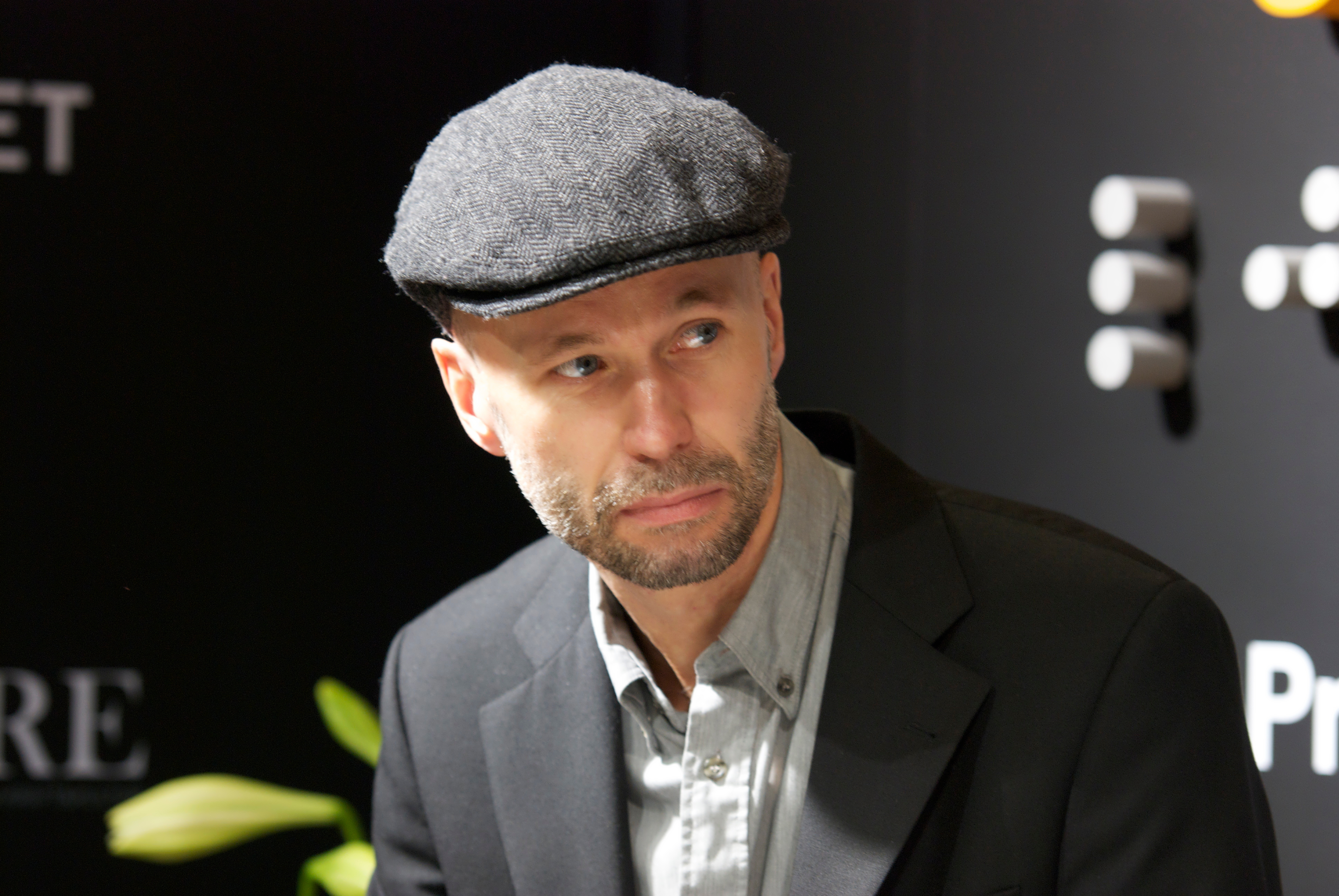 Johan Theorin at Göteborg Book Fair 2011.